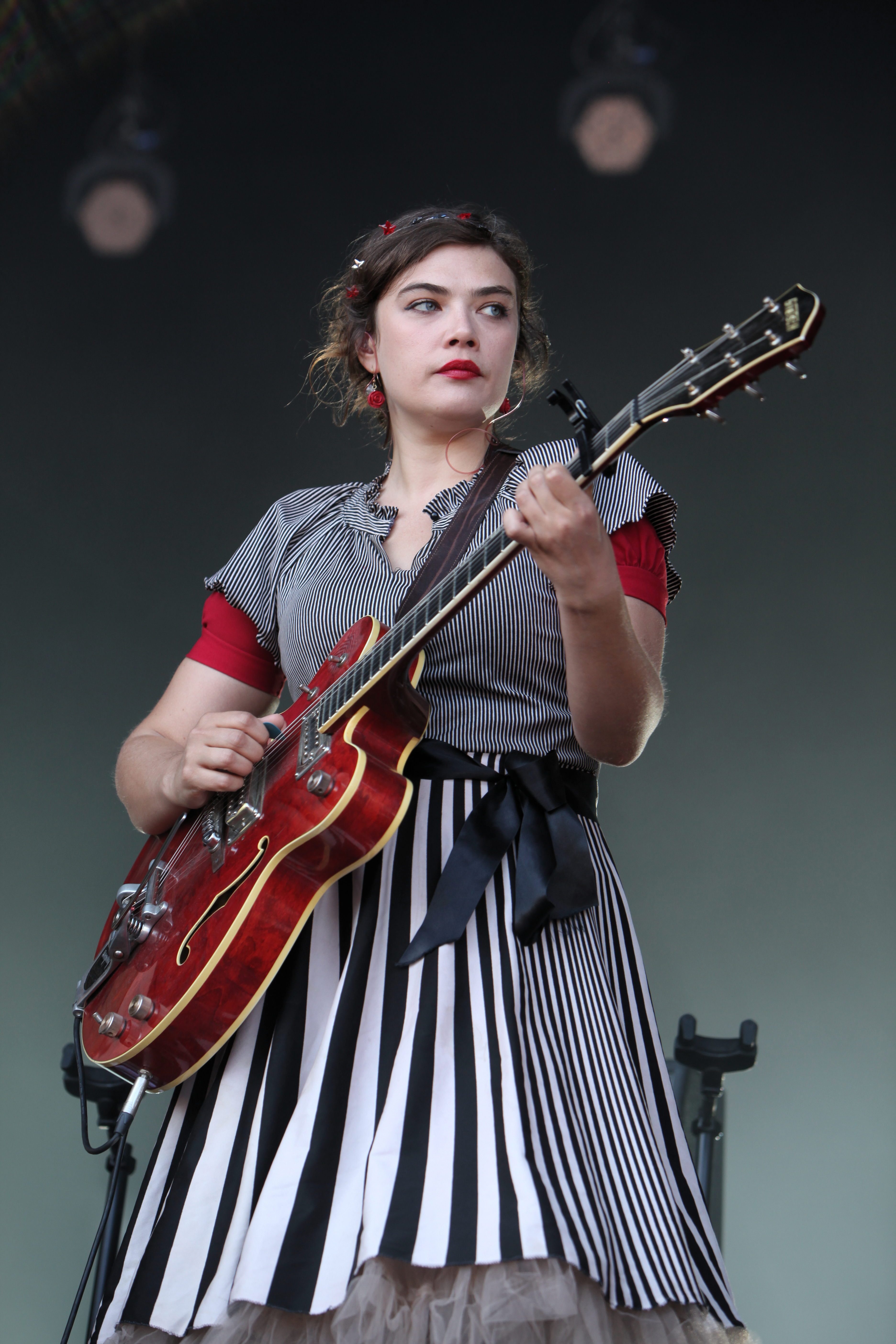 Rosemary Standley, of Moriarty, on stage at the Eurockéennes de Belfort 2011. The making of this document was supported by Wikimedia CH. (Submit your project!) For all the files concerned, please see the category Supported by Wikimedia CH.